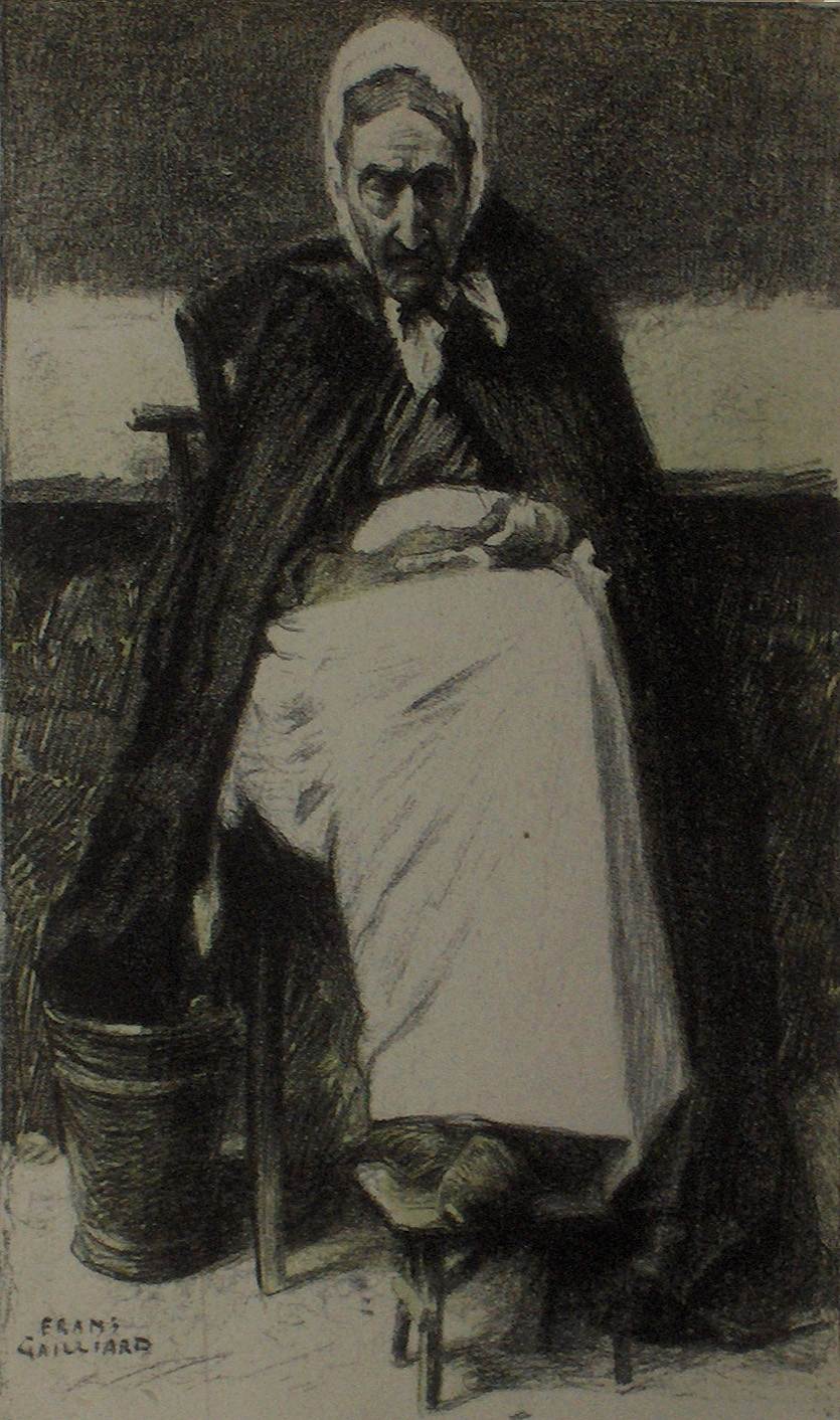 "Old lady from Ostend"